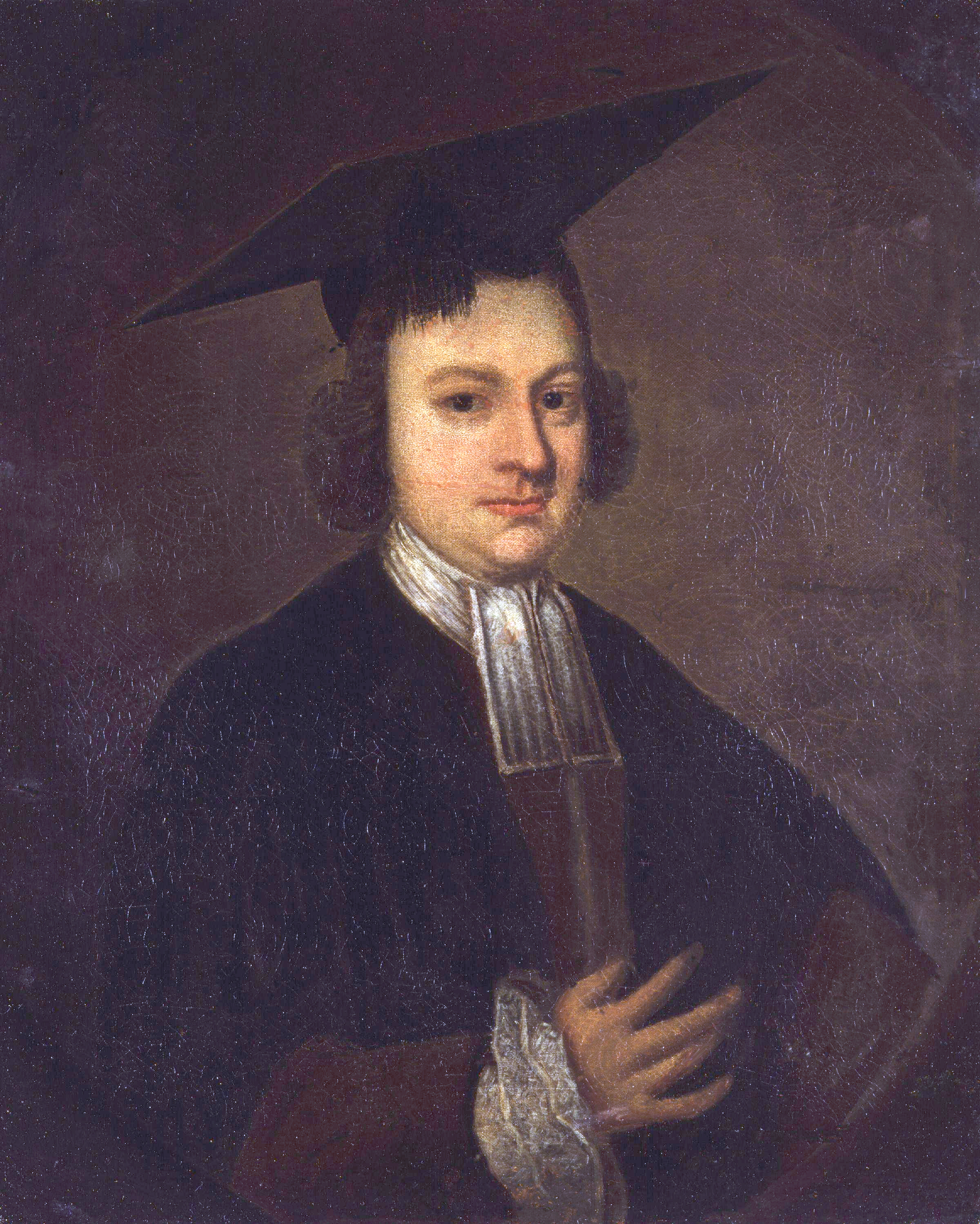 Christopher Smart, by unknown artist.